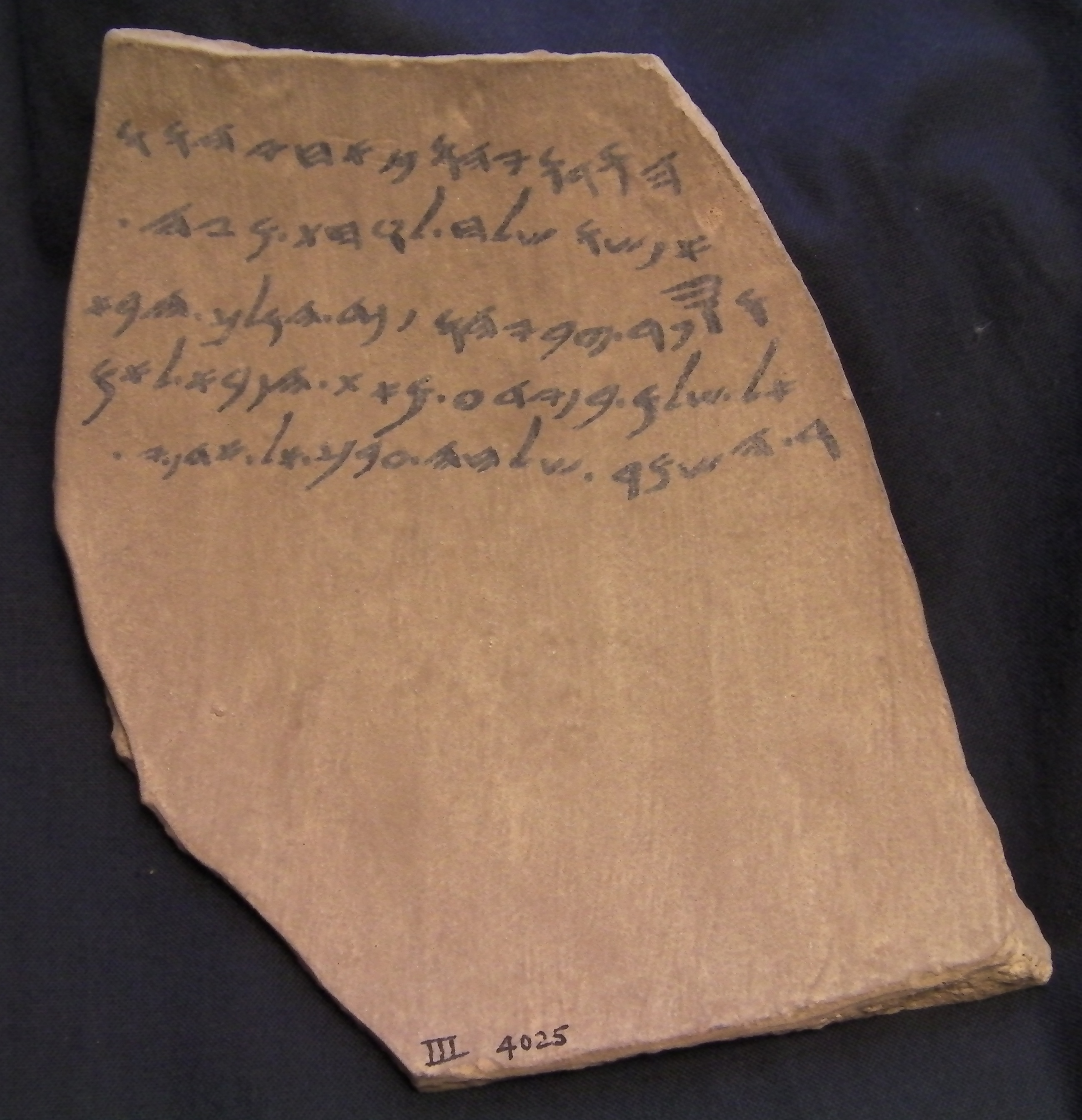 Reverse side of a replica of Lachish Letter III